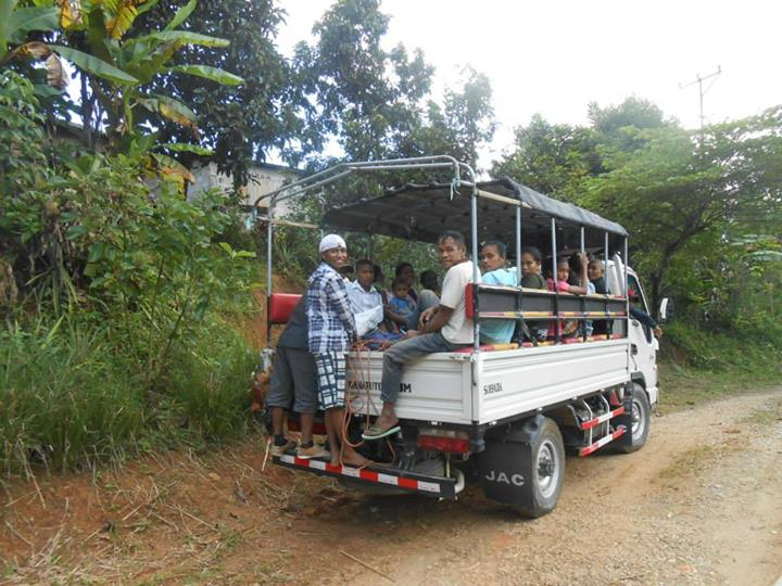 Soibada, East Timor